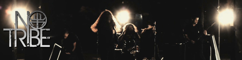 No Tribe Portuguese Band